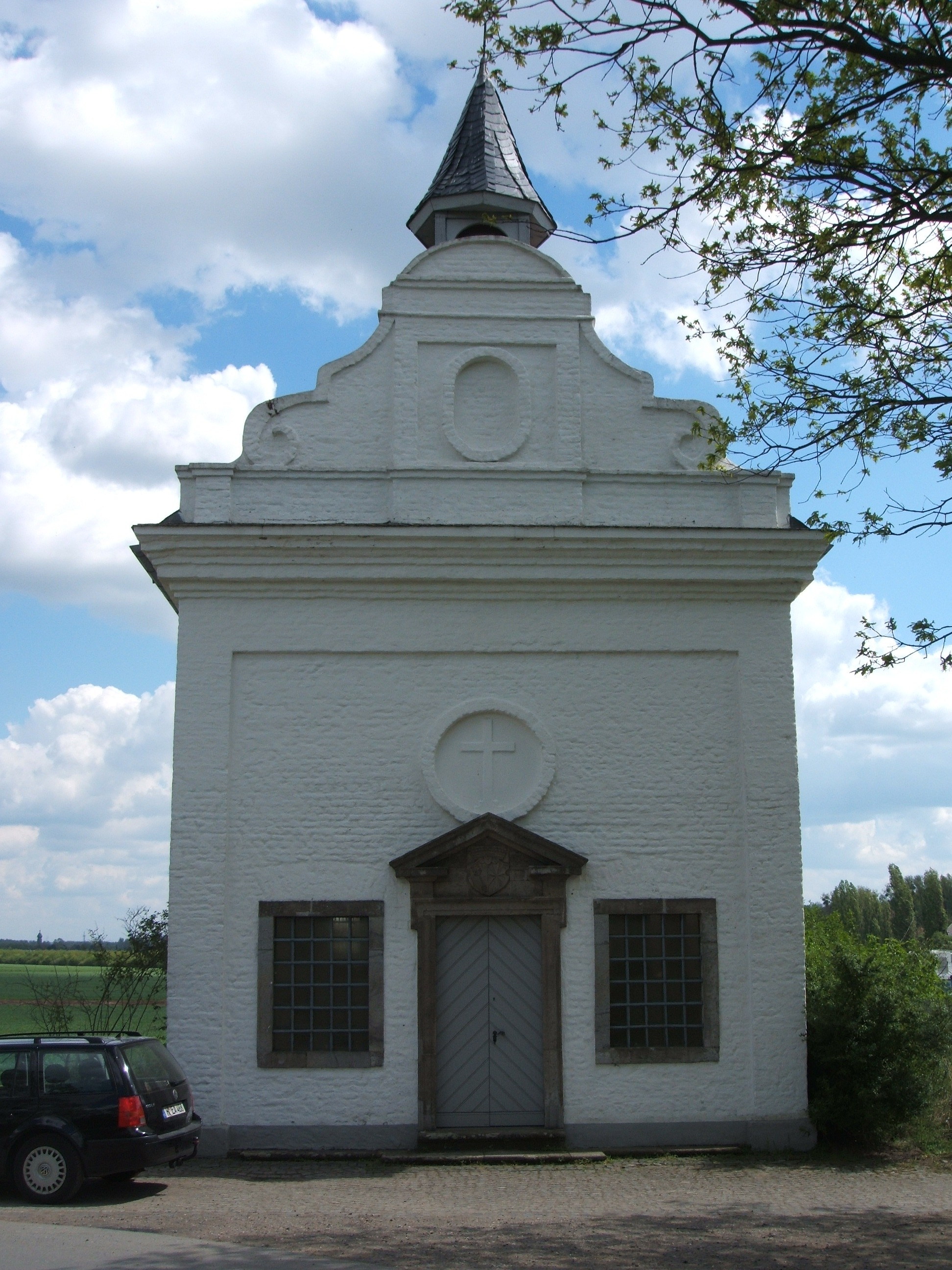 Hubertuskapelle (Düsseldorf-Angermund)